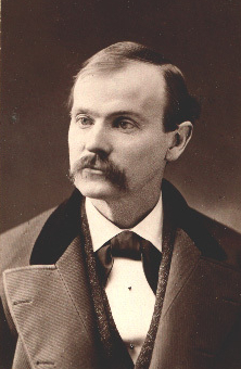 Portrait of Gates Phillips Thruston, circa 1875. Tennessee State Library and Archives, Image ID: 4747